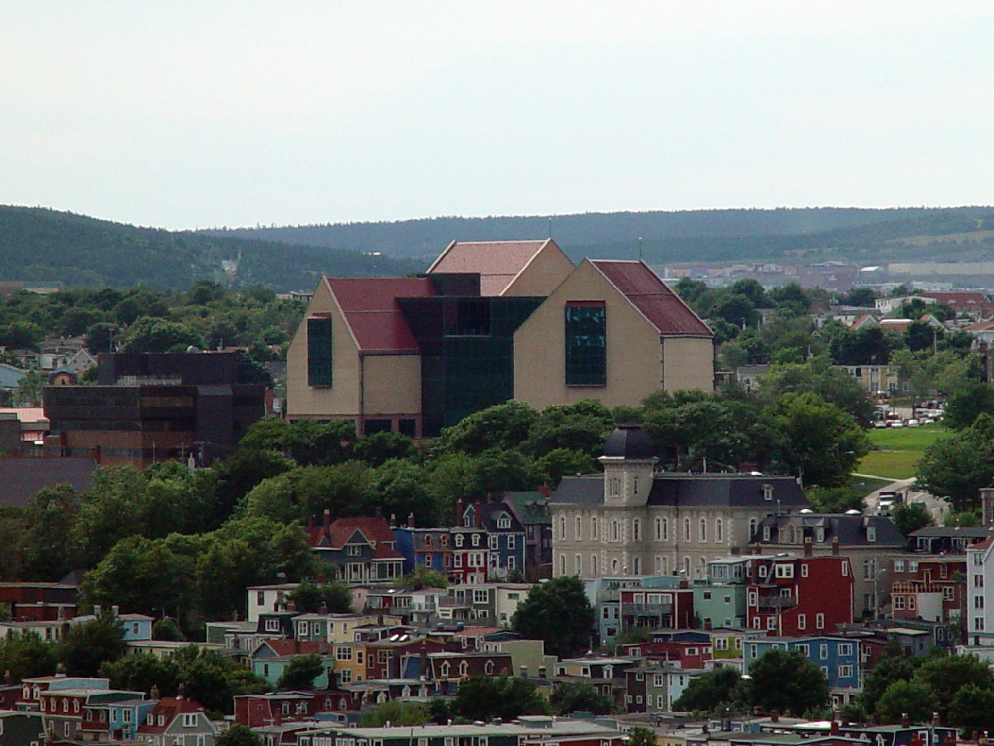 View of St. John's Newfoundland and Labrador, featuring "The Rooms" (provincial museum, archives and art gallery). Taken from Signal Hill.